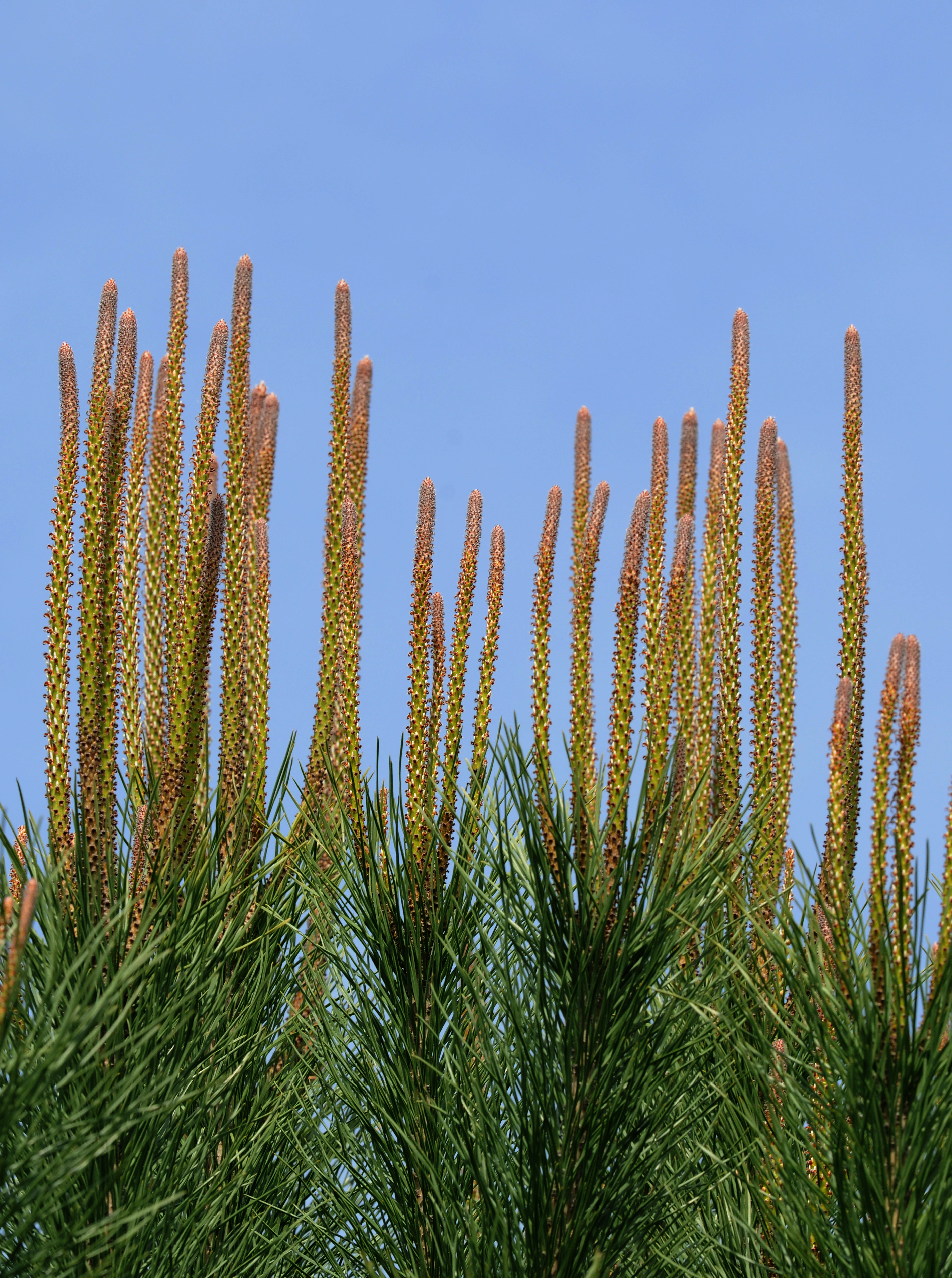 Young shoots with female strobili of Stone Pine (Pinus pinea).